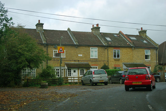 Dunoon Cottages, Luxted Road